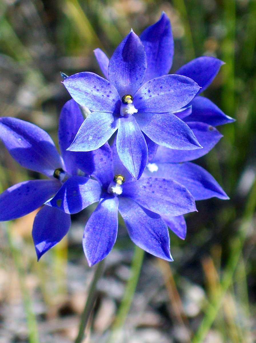 Spotted Sun Orchid, probably Thelymitra ixioides. Bairne Track, Ku-ring-gai Chase National Park, Australia